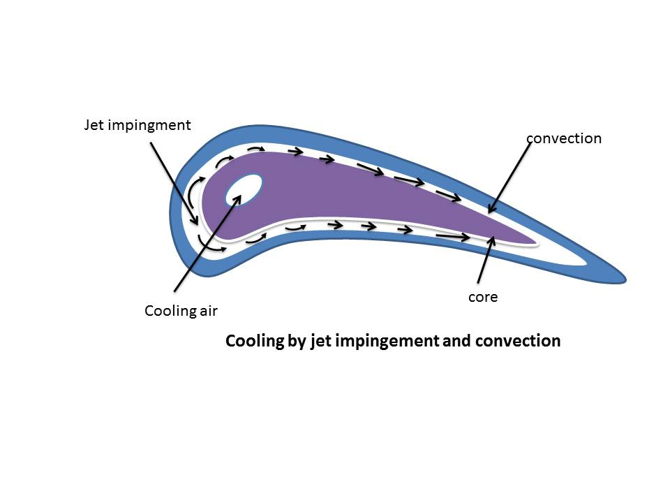 Impingement revised